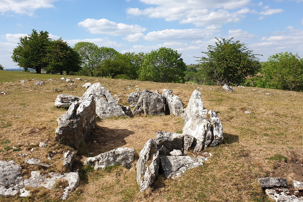 Green Low Chambered Tomb near Grangemill, Derbyshire